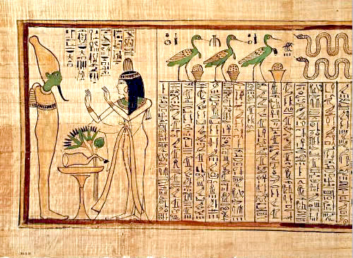 Section of the "Book of the Dead" of Nany, c. 1040-945 BCE. (Dynasty XXI, 3rd Intermediate Period).